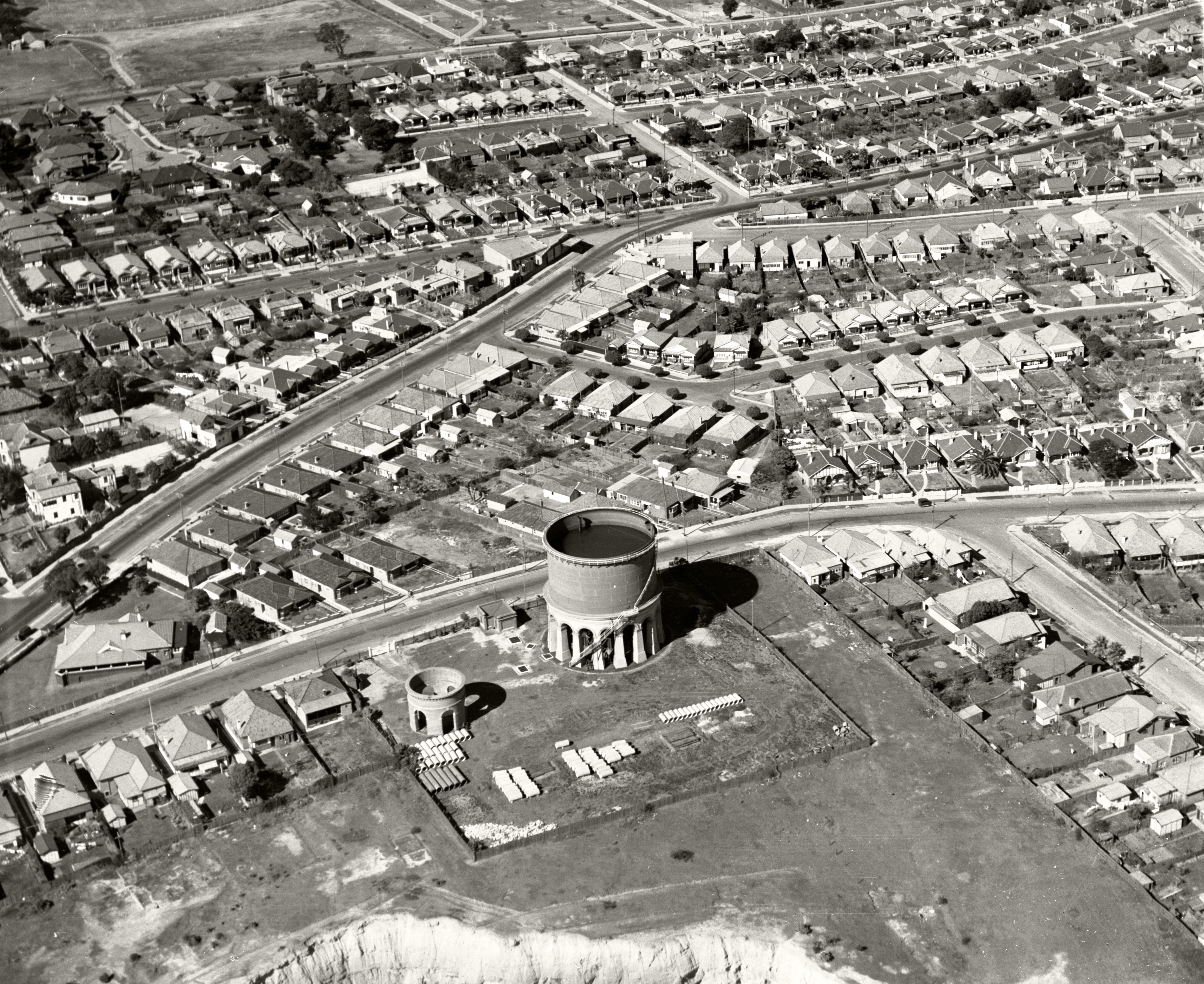 Aerial view of the Ashfield Storage Tower in 1936, the storage tower was built using a steel tank resting on a concrete slab and concrete supports.